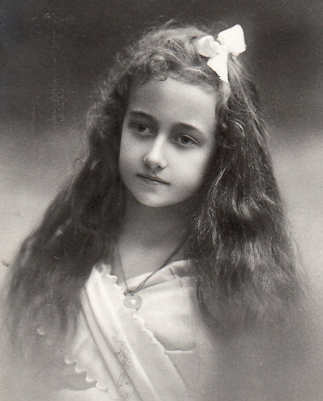 Private photo of Princess Antonia of Luxembourg.